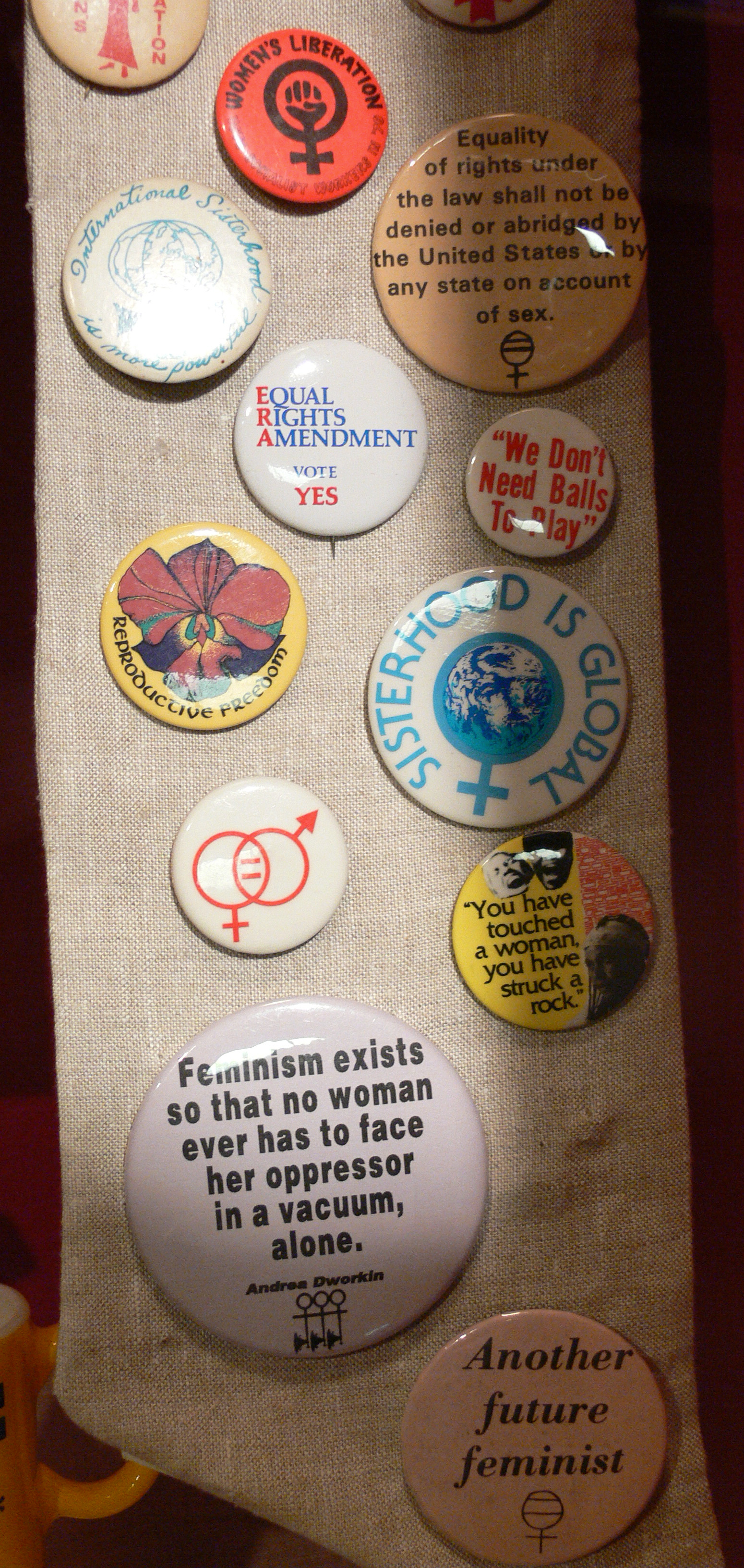 Feminist pin buttons The Women's Museum, Dallas, Texas